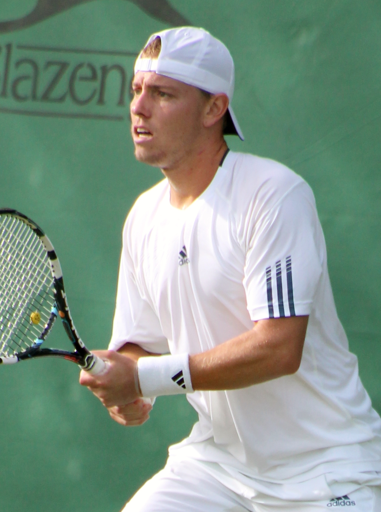 Duckworth WMQ14 (3)